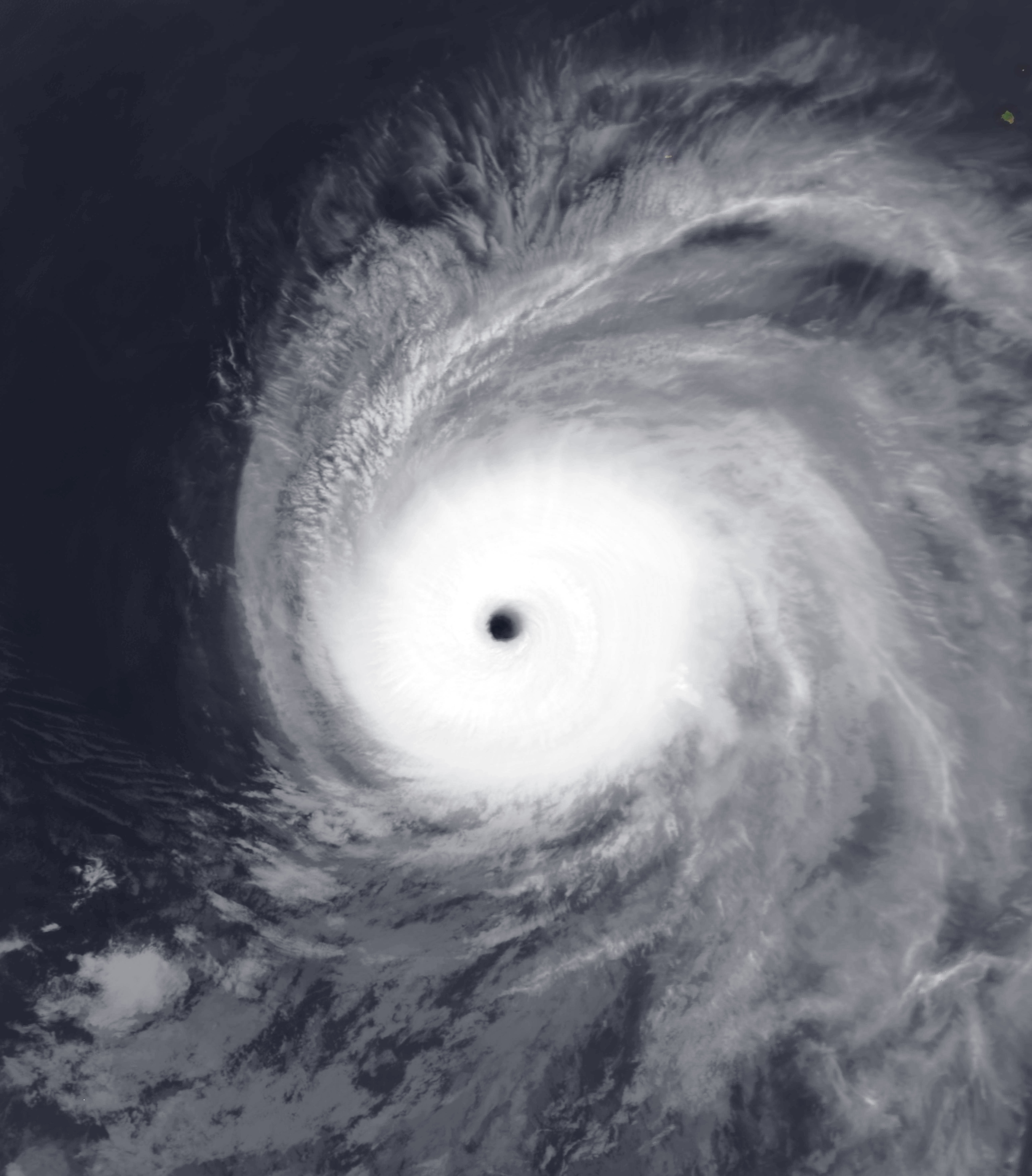 Hurricane Celia at peak intensity on June 25